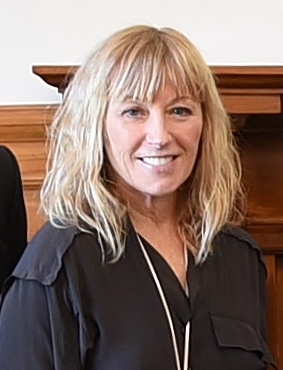 Artist Cindy Sherma, at a lunch in her honour at Government House, Wellington, on 1 September 2016.